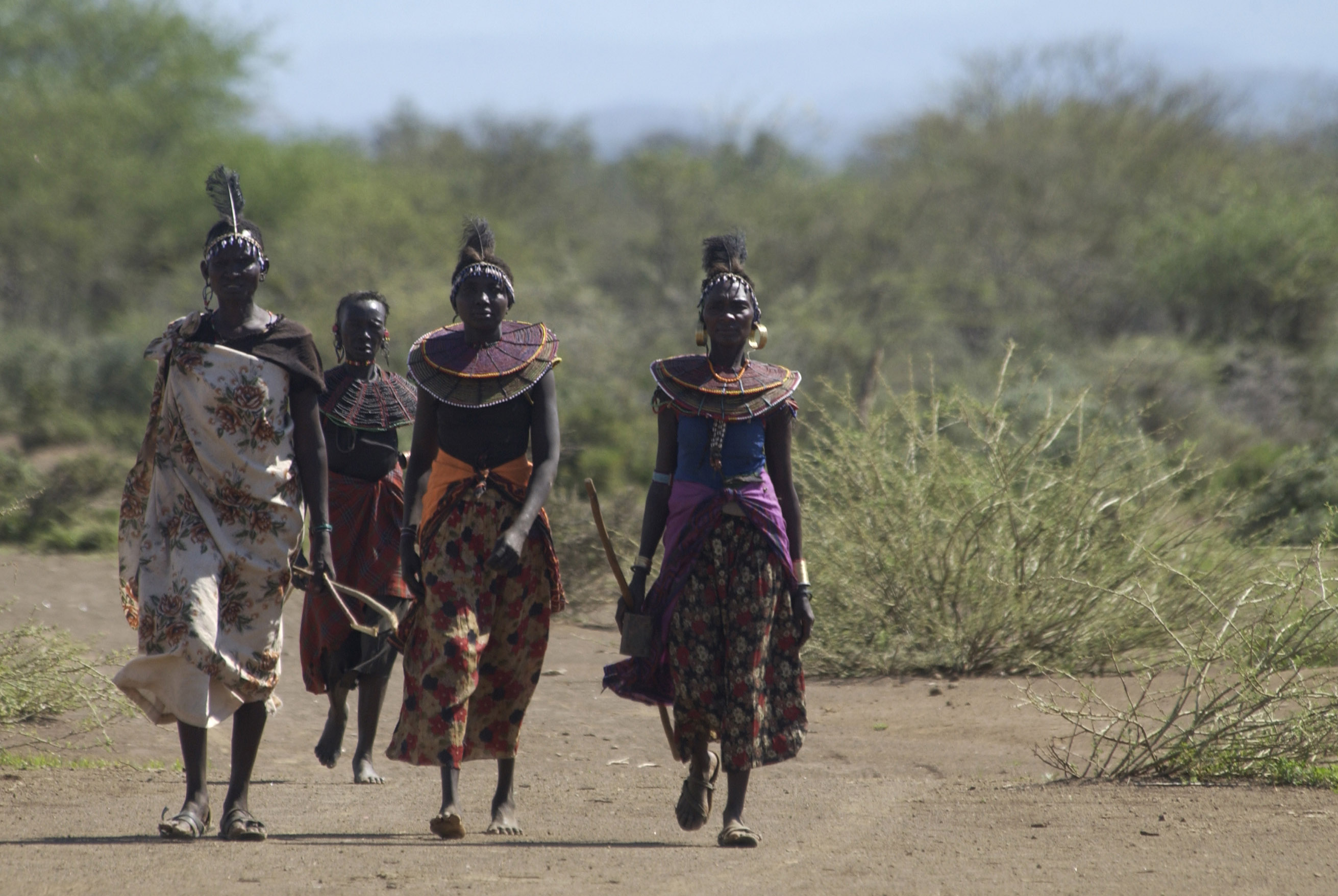 060809-N-0411D-009 Chemeril Dam, Kenya (Aug. 9, 2006) - A group of Pokot women walk to a meeting at called by the tribal mayor of the region, to help spread the word about the upcoming veterinary out-reach mission being performed by U.S. and East African military forces during exercise Natural Fire. Natural Fire is the largest combined exercise between Eastern African community nations and the United States, and includes medical, veterinary and engineering civic affairs programs. U.S. Navy photo by Mass Communication Specialist 2nd Class Roger S. Duncan (RELEASED)